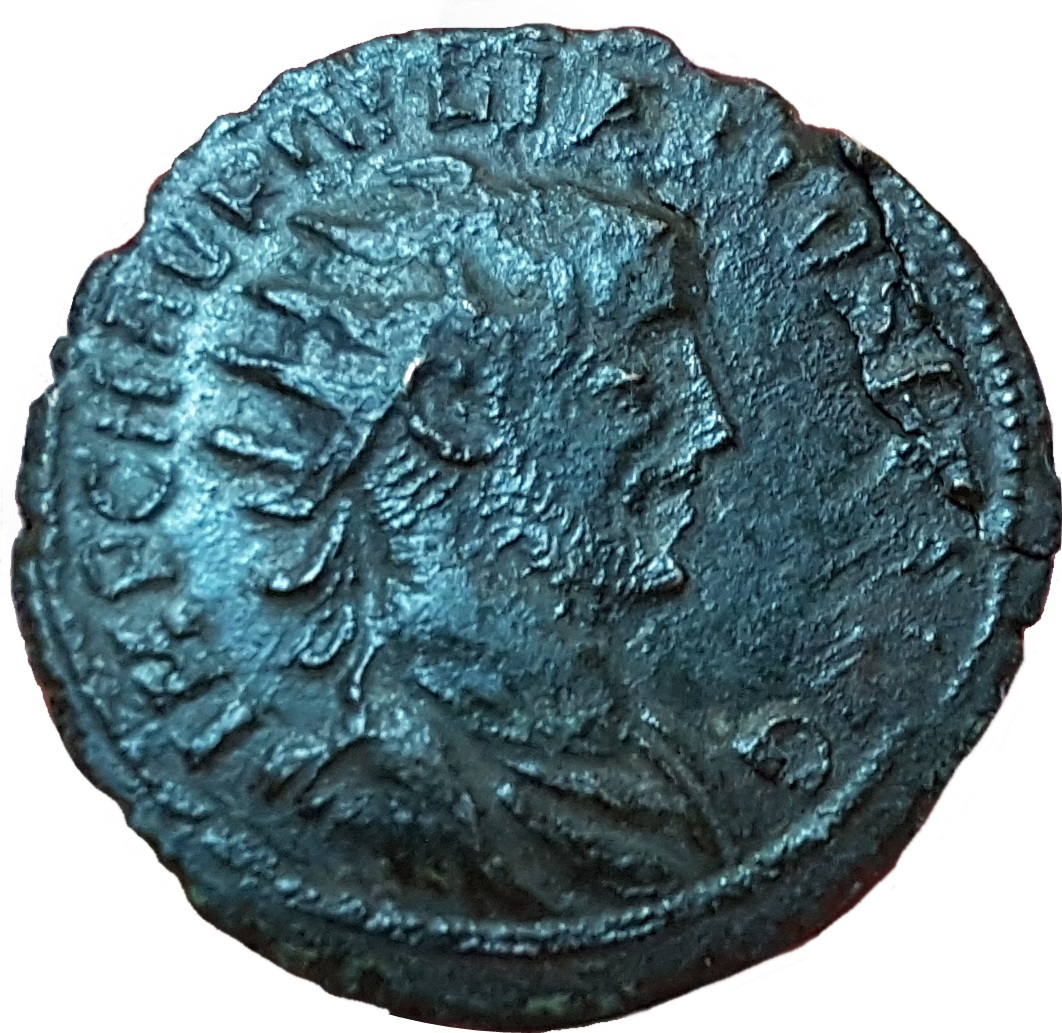 Julian of Pannonia, Antoninianus circa 284-285, billon 22.5mm., 3.47g. IMP CM AVR IVLIANVS PF AVG